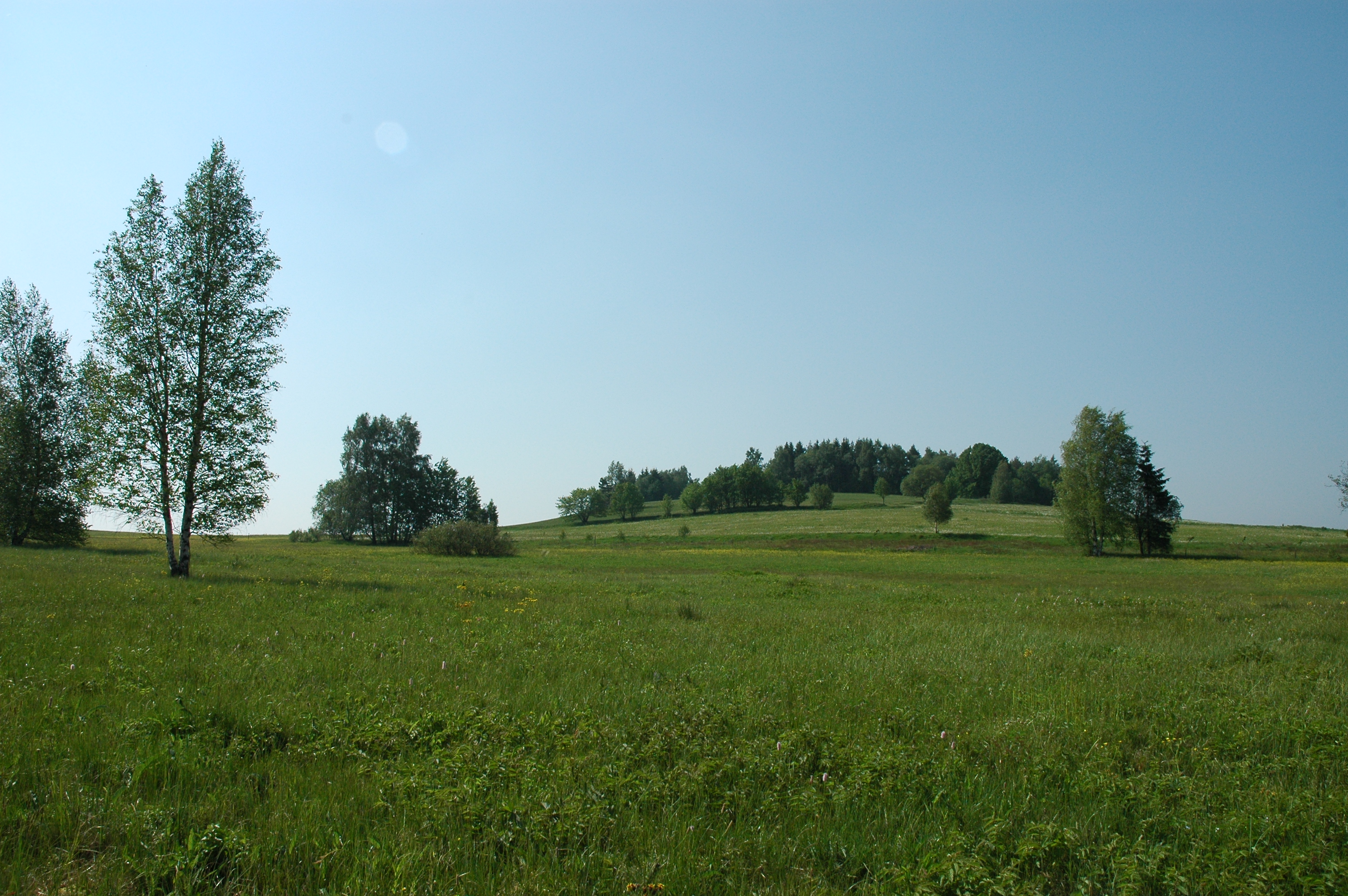 Nature reserve Volákův kopec in Chrudim District, Czech Republic